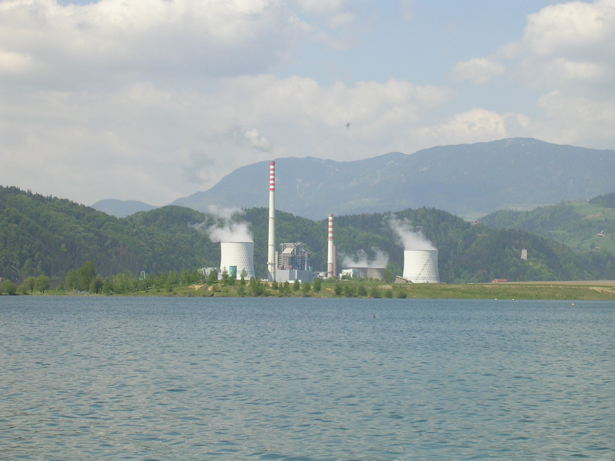 Steam power station Šoštanj, Slovenia